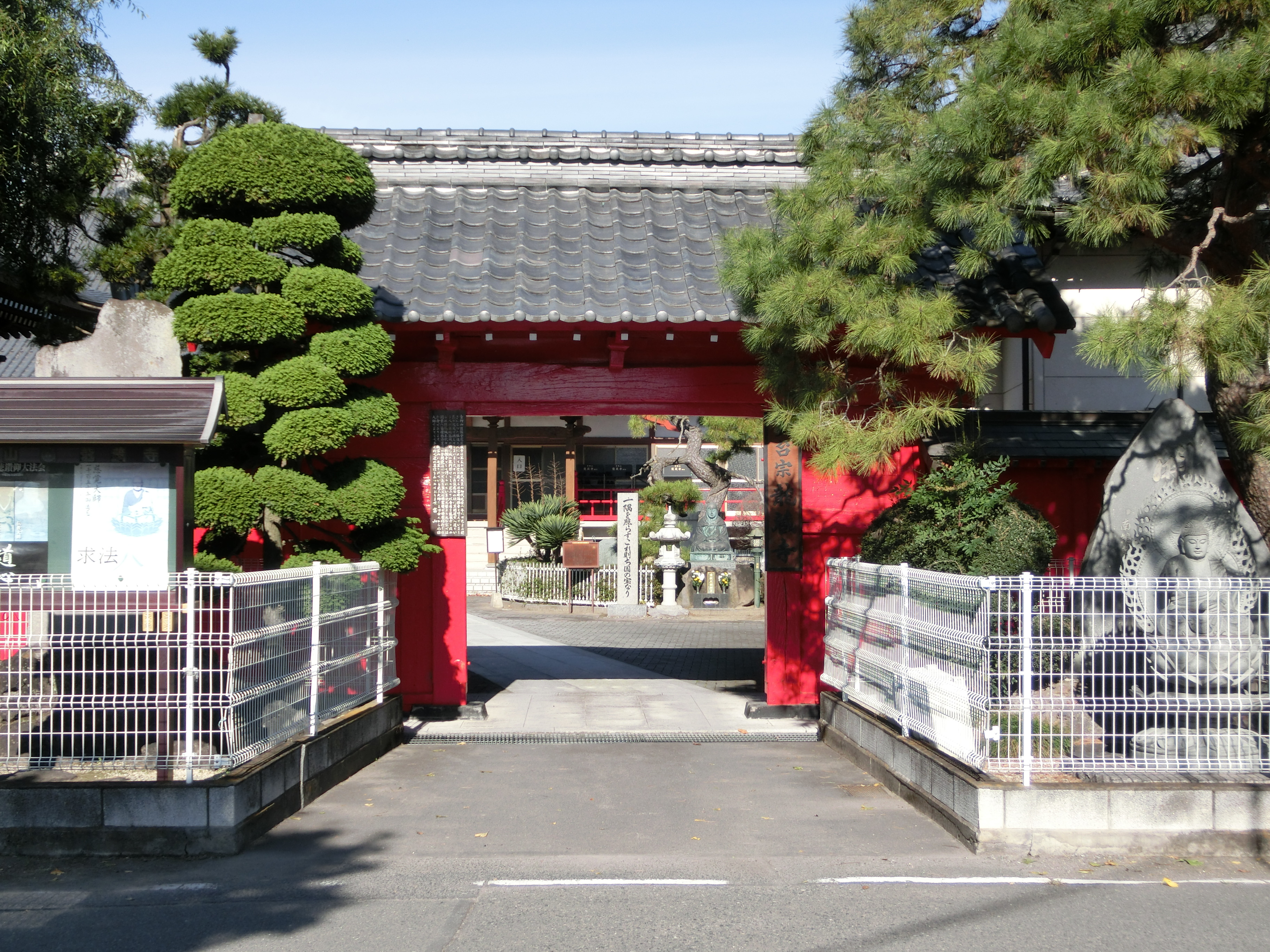 Ryuzo-ji (Maebashi)